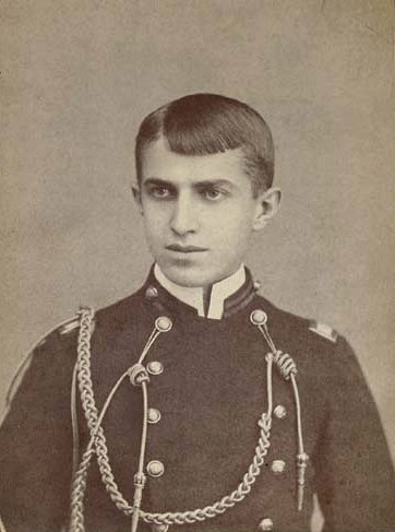 American author Stephen Crane in military uniform in 1888 at the age of seventeen